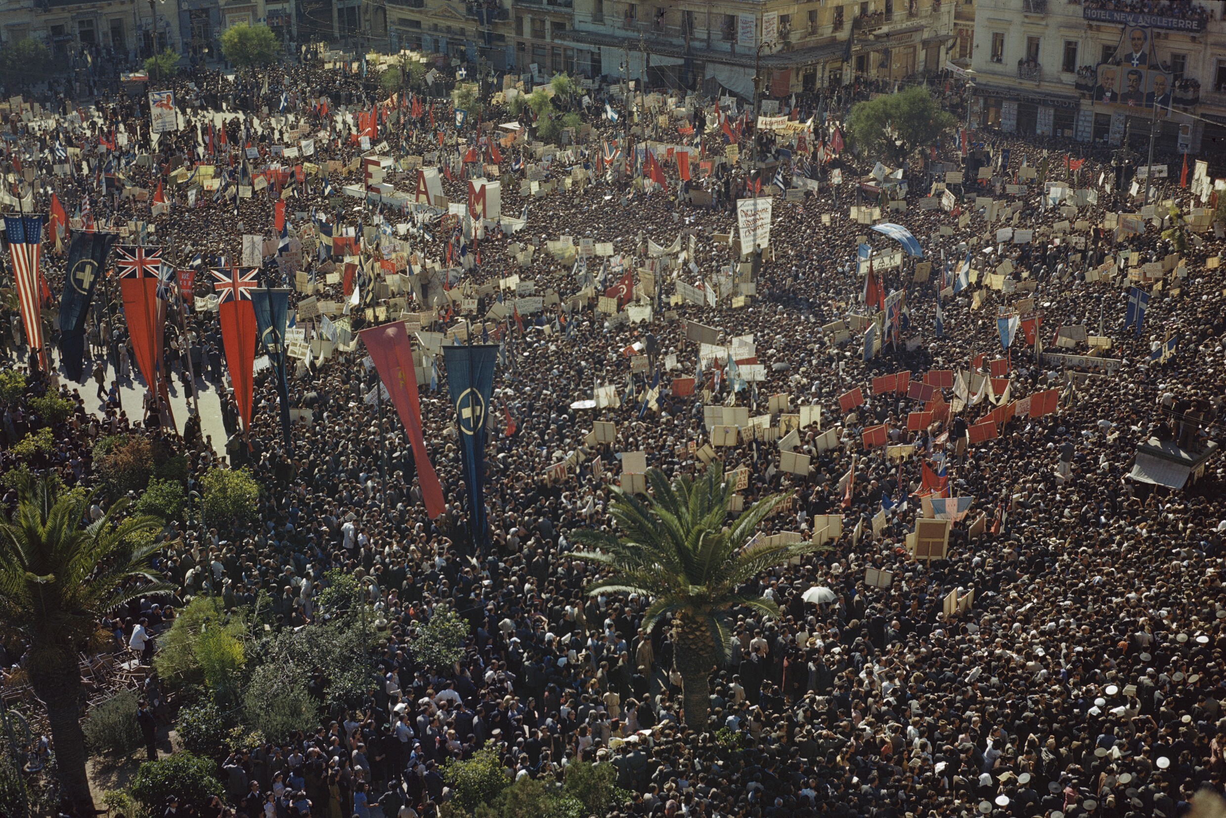 The New Government of Greece Enters Athens, 18 October 1944 The Greek Prime Minister M Papandreou, made a speech which was broadcast to the whole country and afterwards laid a wreath on the Tomb of the Unknown Soldier. The scene as the crowd in the main square of Athens listens to a speech made by the new Prime Minister, M Papandreou.